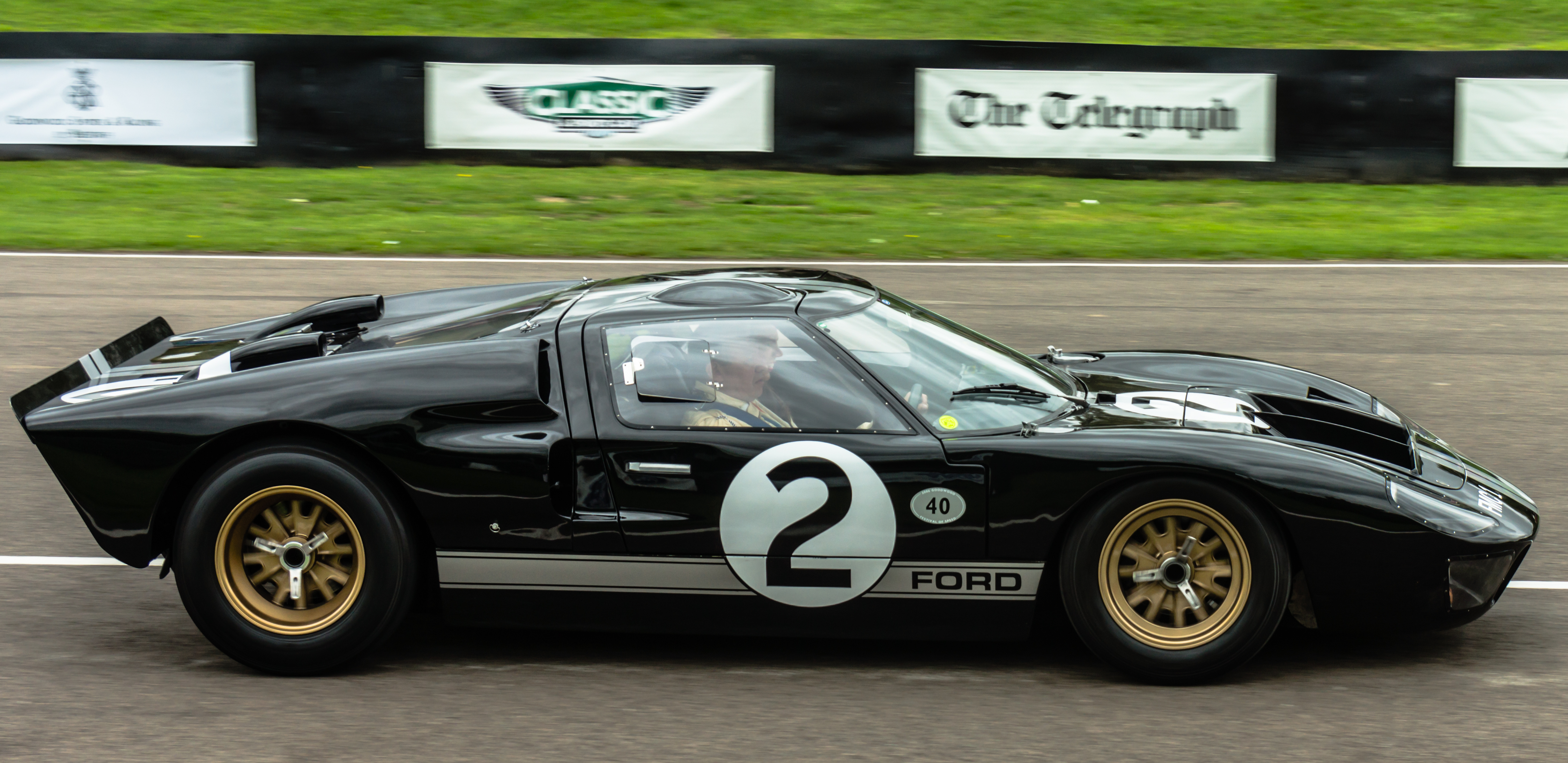 A Ford GT40 Mark II at the 2013 Goodwood Revival.